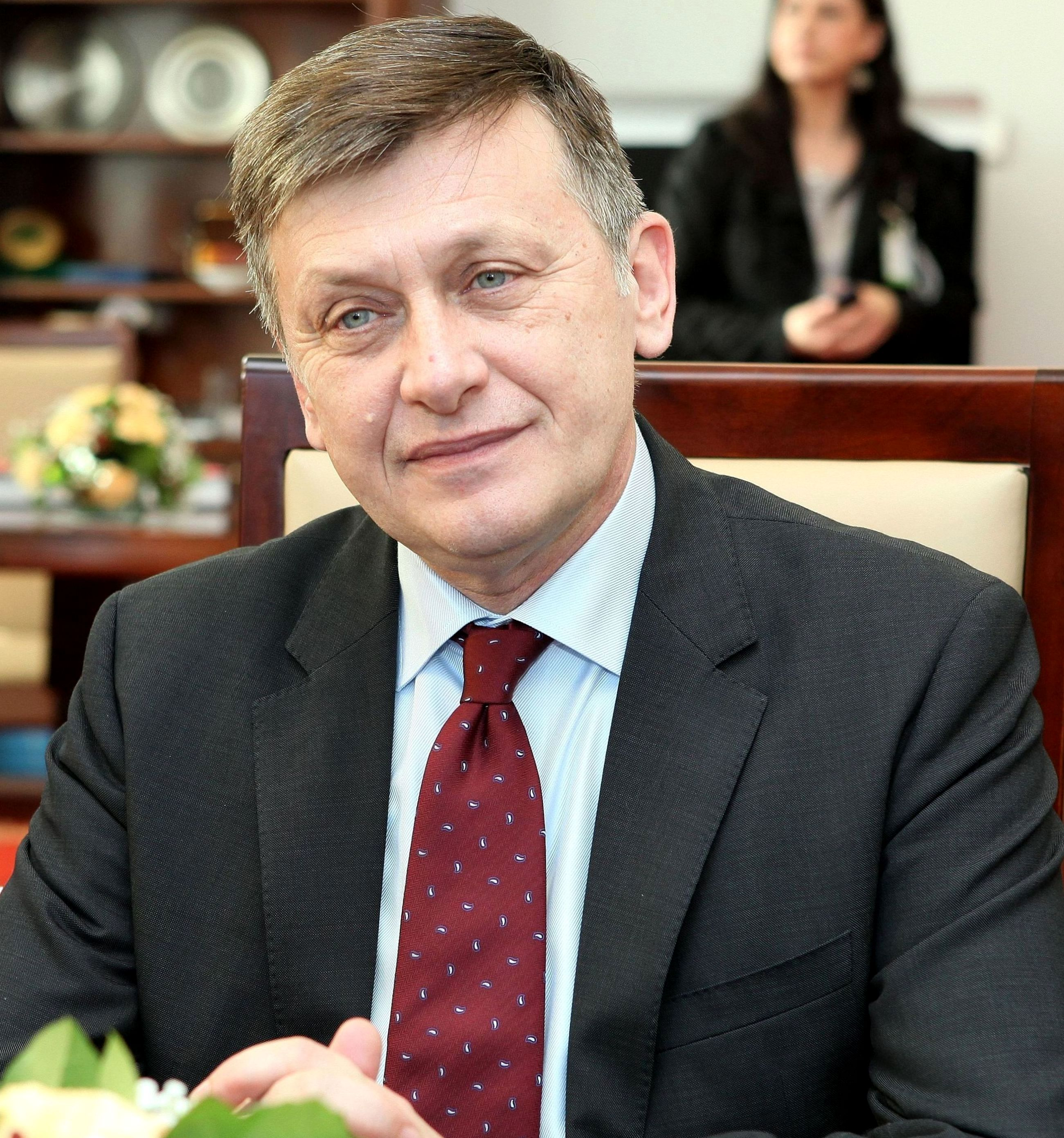 President of the Senate of Romania Crin Antonescu in the Polish Senate